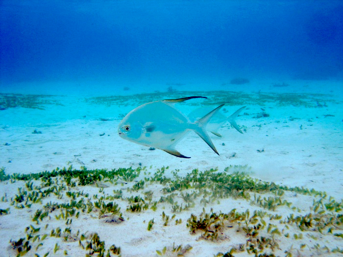 Image ID: reef0917, NOAA's Coral Kingdom Collection Location: Guam, Mariana Islands Two snubnose pompano, Trachinotus blochii swimming over a sandy bottom